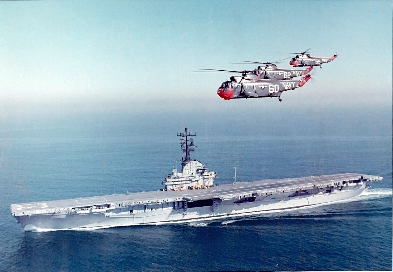 Three Sikorsky SH-3A Sea King from Helicopter Anti-Submarine Squadron 6 (HS-6) "Indians", flying over the aircraft carrier USS Kearsarge (CVS-33). HS-6 was assigned to Carrier Anti-submarine Air Group 53 (CVSG-53) aboard Kearsarge. The picture was taken after the 1962 FRAM-modernisation, but the carrier still carries the SPS-8A radar. Also, the Sea Kings are not yet painted in the grey/white scheme, therefore the date is therefore probably 1962–1964.